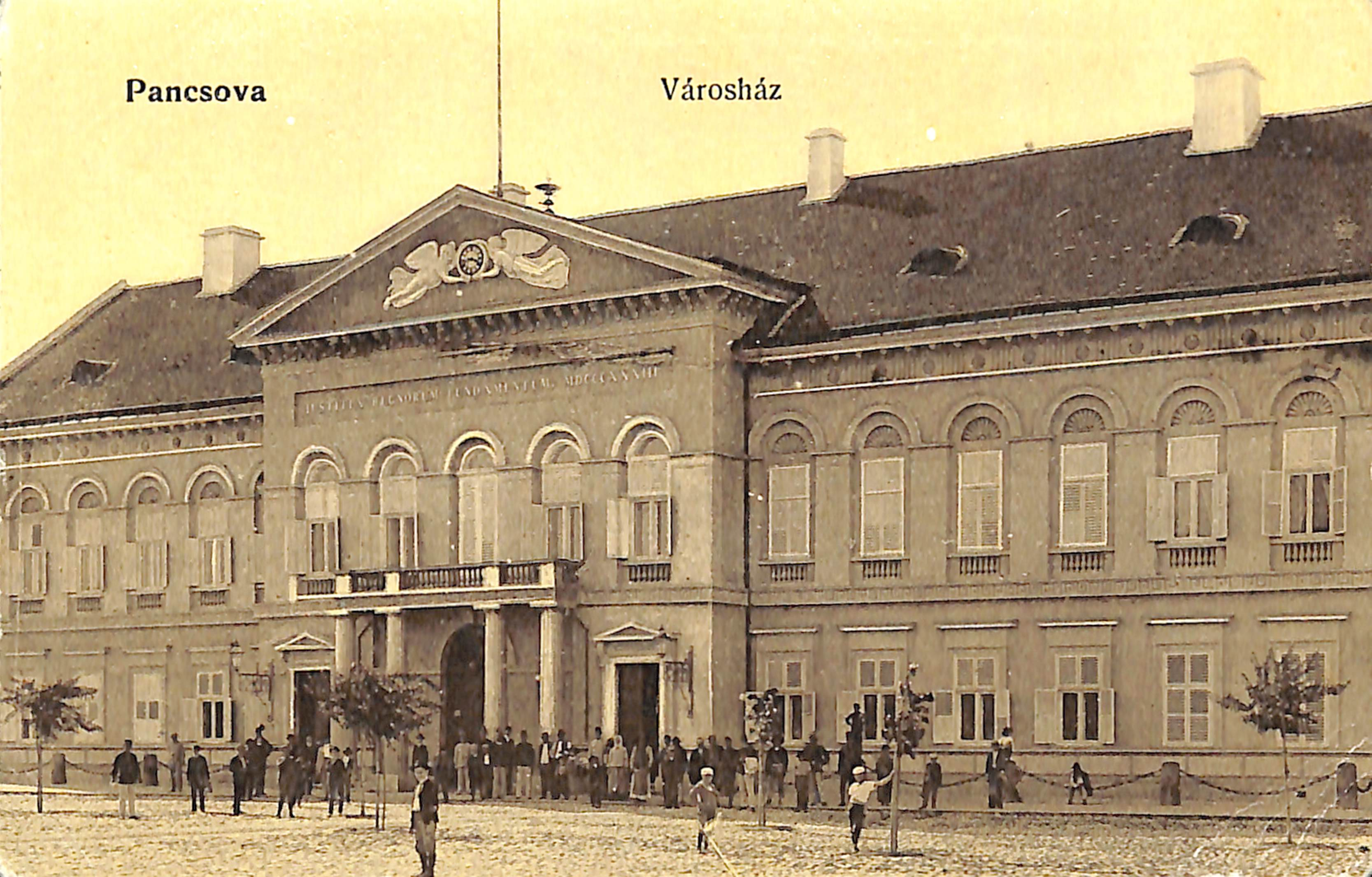 The building of the Magistrate, today the National Museum in Pančevo